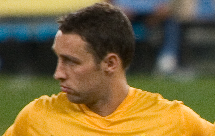 Scott McDonald. Image cropped from original at flickr.